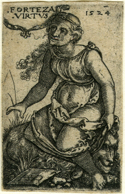 Note Beham's mongram 'HSP' later changed to 'HSB'.